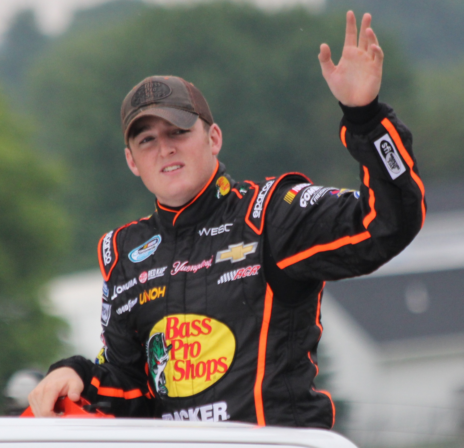 NASCAR Nationwide Series driver Ty Dillon waves to the crowd at the 2014 Gardner Denver 200 event at Road America.